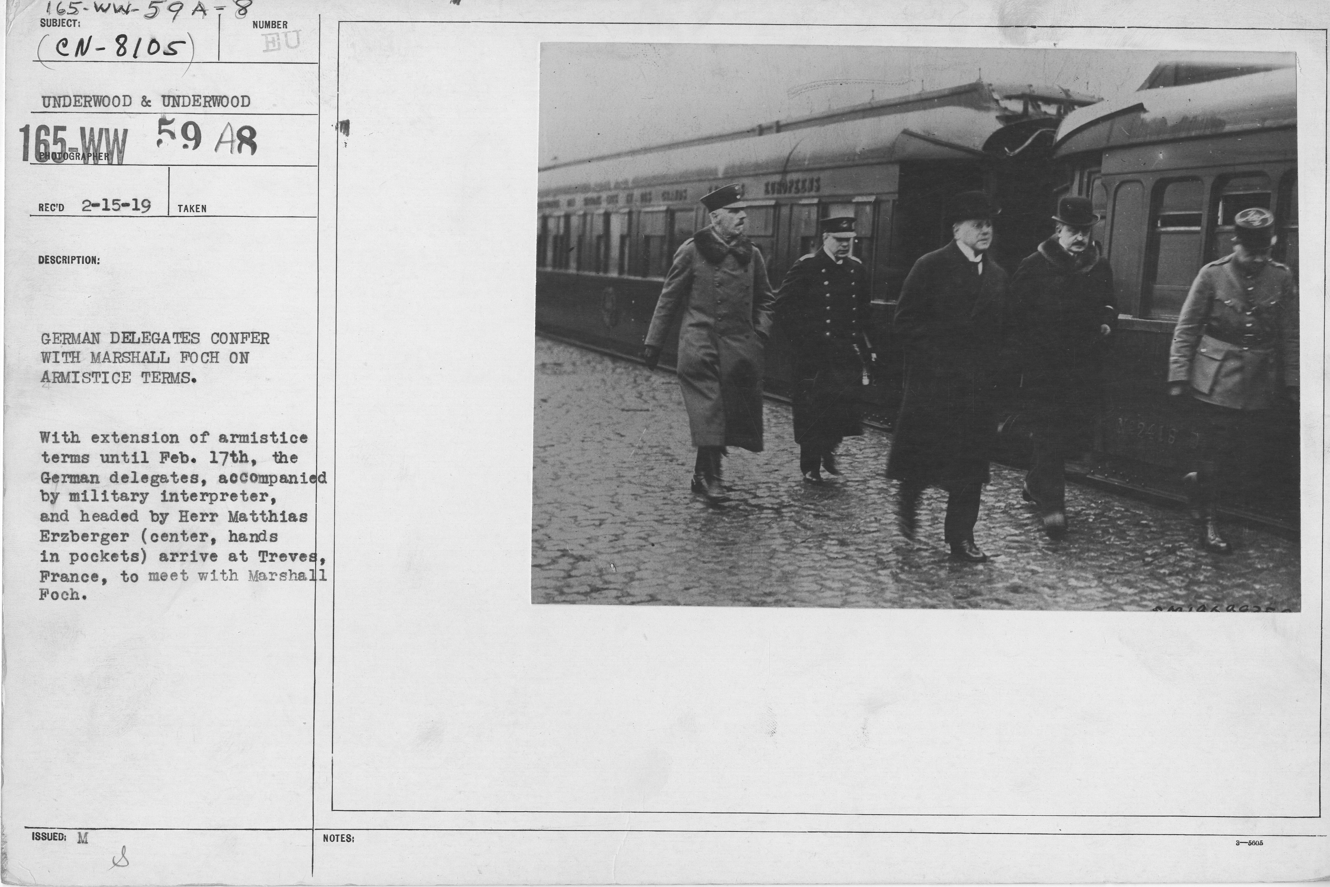 Scope and content: Photographer: Underwood & Underwood